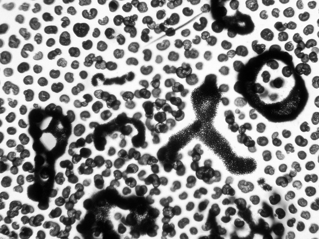 There are imaged colonies of the blue green algae Microcystis aeruginosa and one needle-like colony of Aphanizomenon flos-aquae as seen under the microscope that was limited to employing monochromatic blue light. These Cyanobacteria blooms in fresh water and in low salinity portions of Coastal Bays. In summer they can form green clots giving the water the appearance of blue-green paint. Wind moves the water that the clots are floating and billowing near the surface forming the green lake scum.